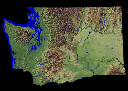 Map of Washington State's physical terrain, made by the USGS using their NED dataset.